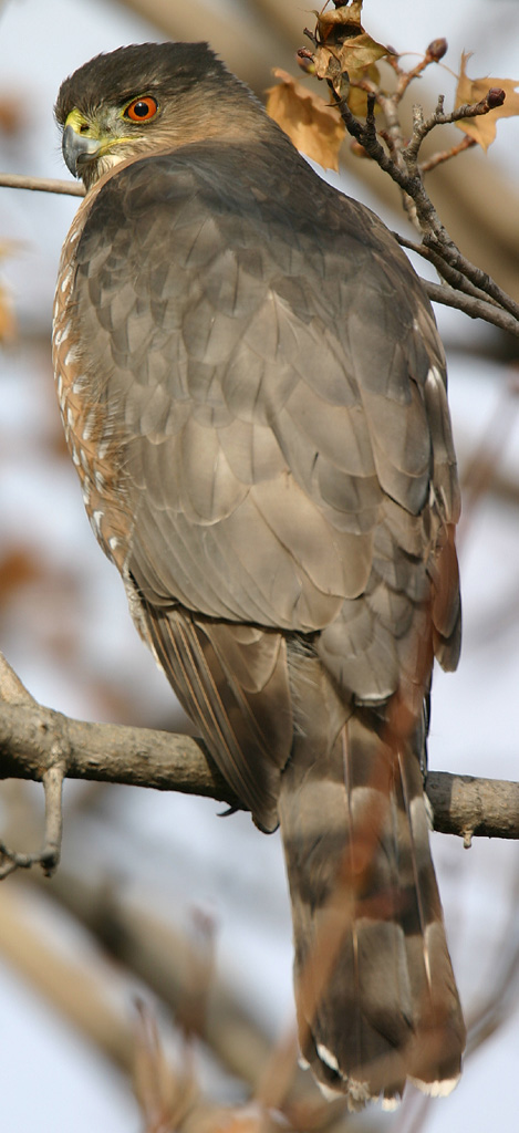 Cooper's Hawk -- backyard, Toronto, Canada -- 2004 November